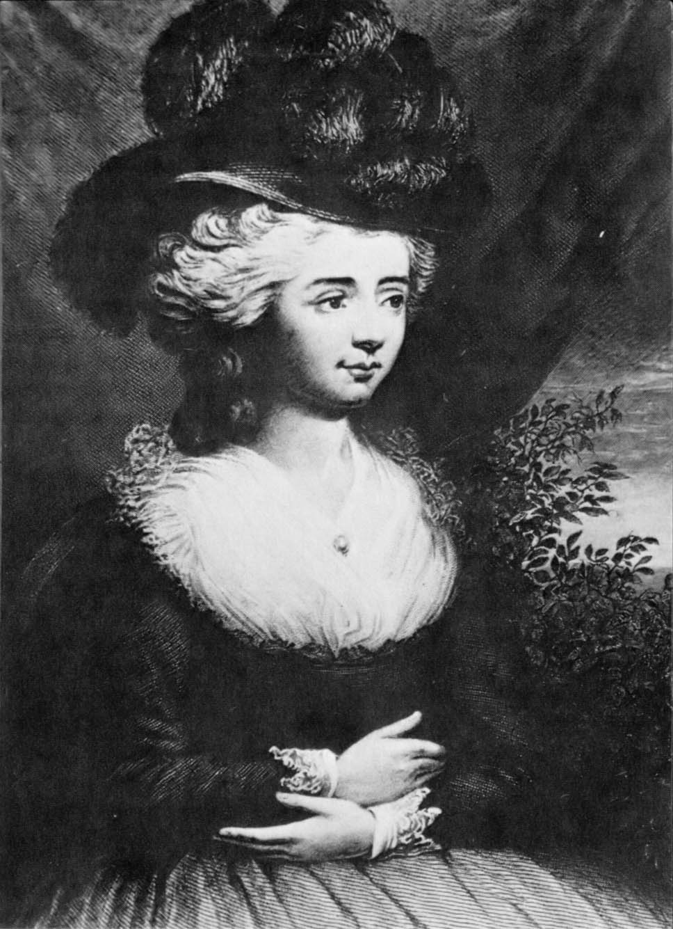 Frances Burney, (Parham Park, Sussex)